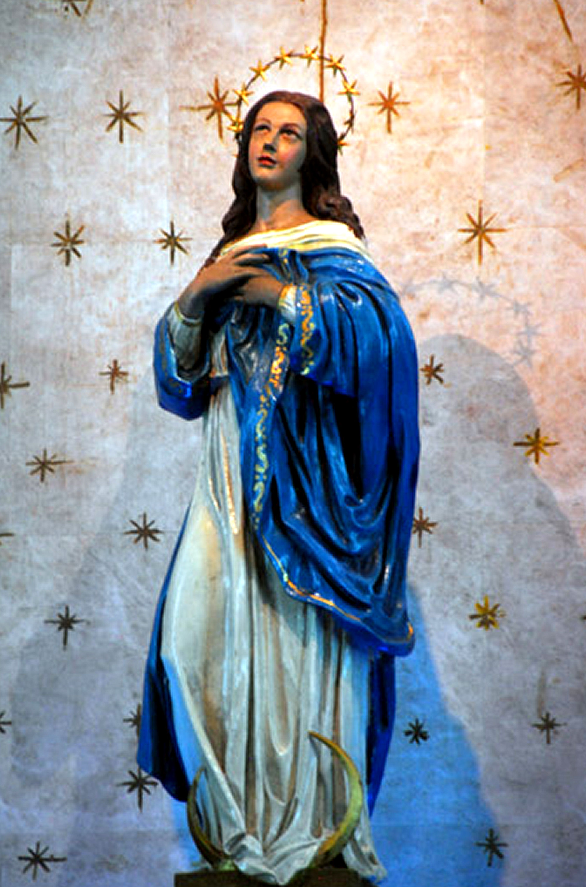 Philippine Tour Manila Immaculate Statue